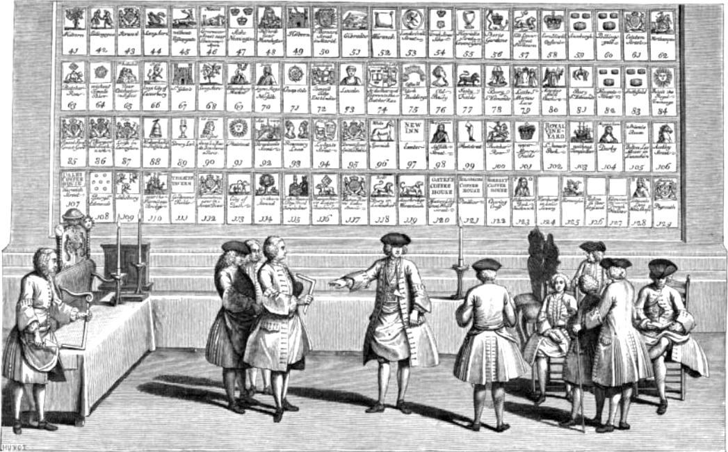 Print representing a Scene of Freemasonry.